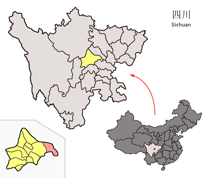 Location of Jintang County (pink) and Chengdu Prefecture (yellow) within Sichuan province of China Map drawn in september 2007 using various sources, mainly : Sichuan province administrative regions GIS data: 1:1M, County level, 1990 Sichuan Counties map from